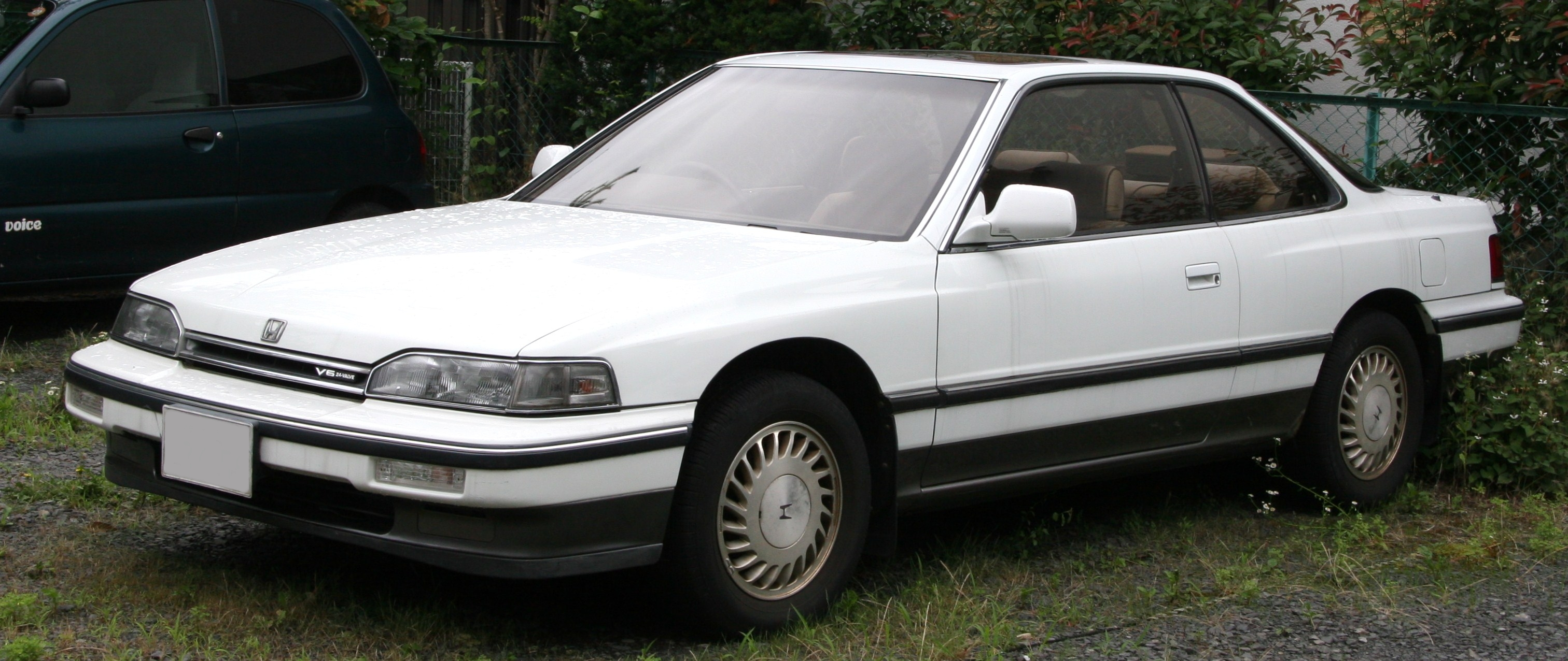 Honda Legend